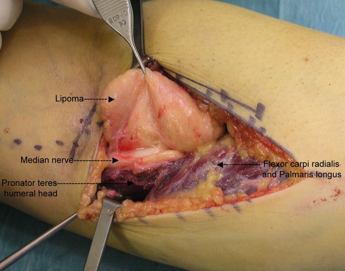 Intraoperative photo showing the median nerve within the intermuscular lipoma.